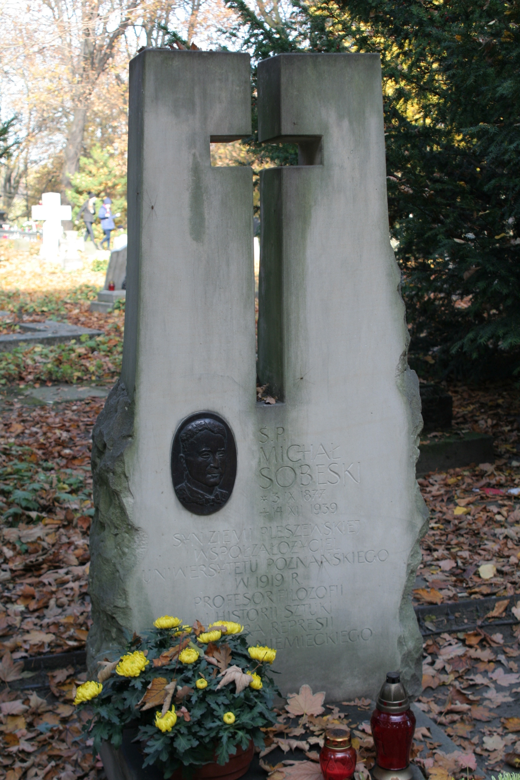 Michał Sobeski's grave